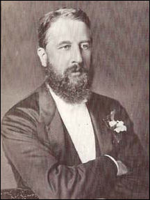 Spencer Cavendish, 8th Duke of Devonshire (1833-1908)